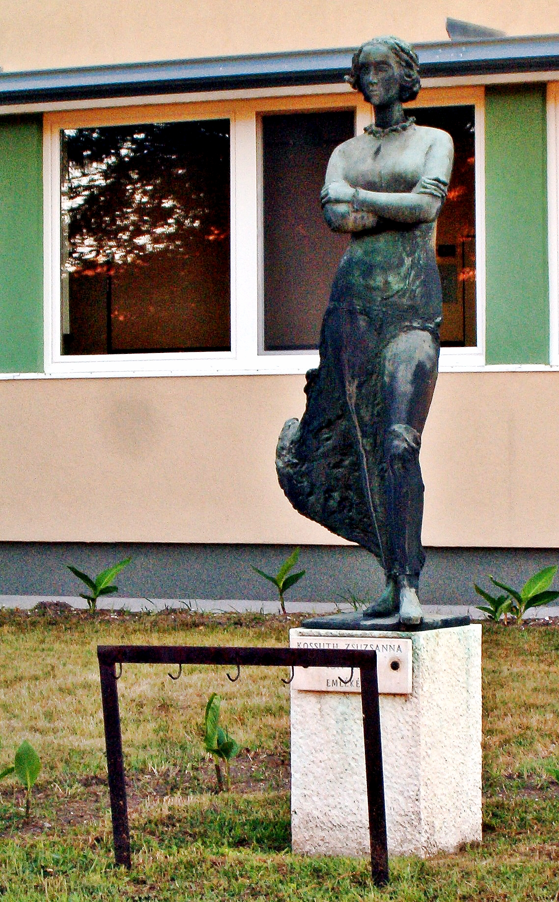 Statue of Zsuzsanna Kossuth in Sárbogárd.